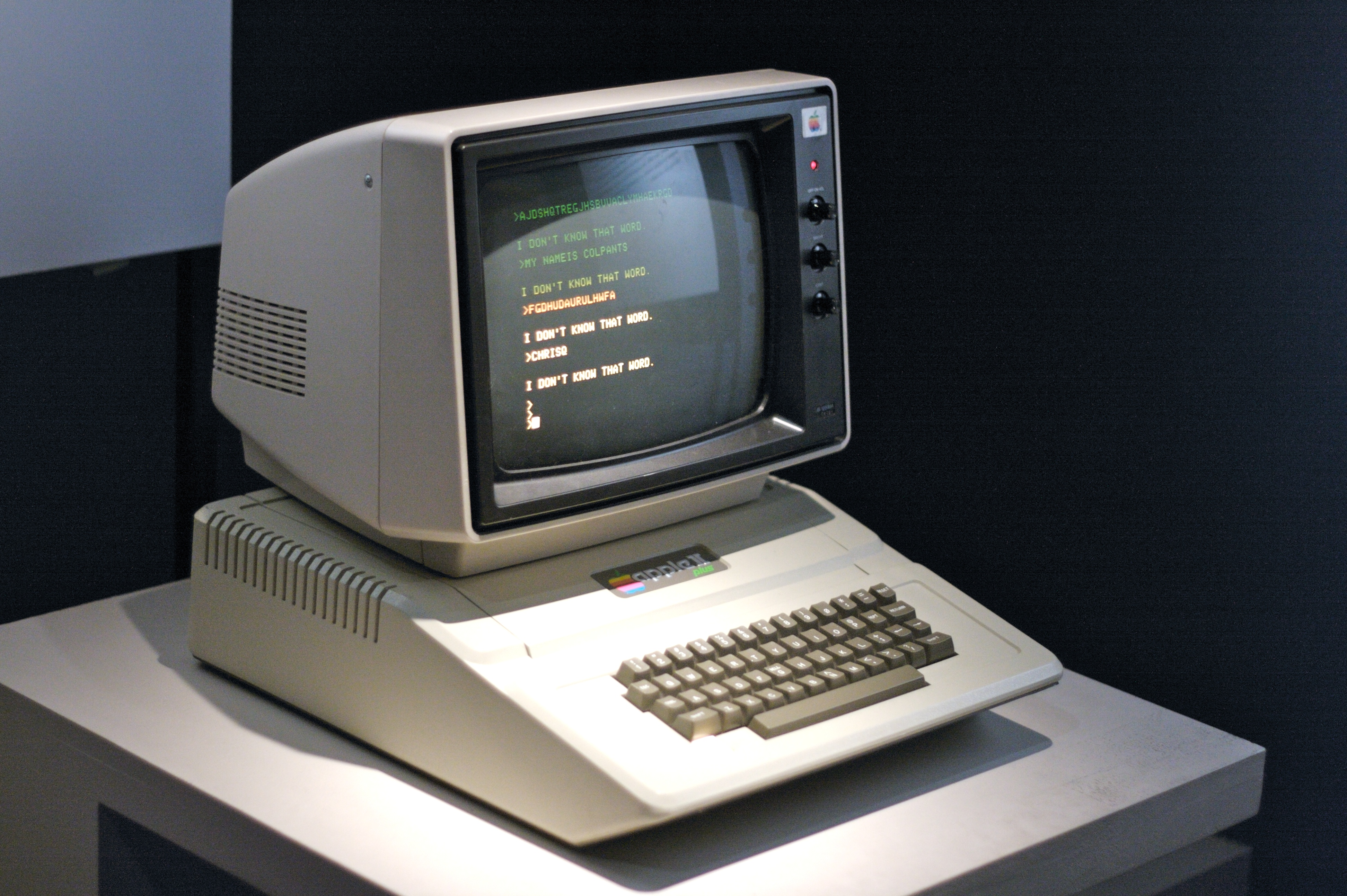 The Apple II Computer on display at the Museum Of The Moving Image in New York City.